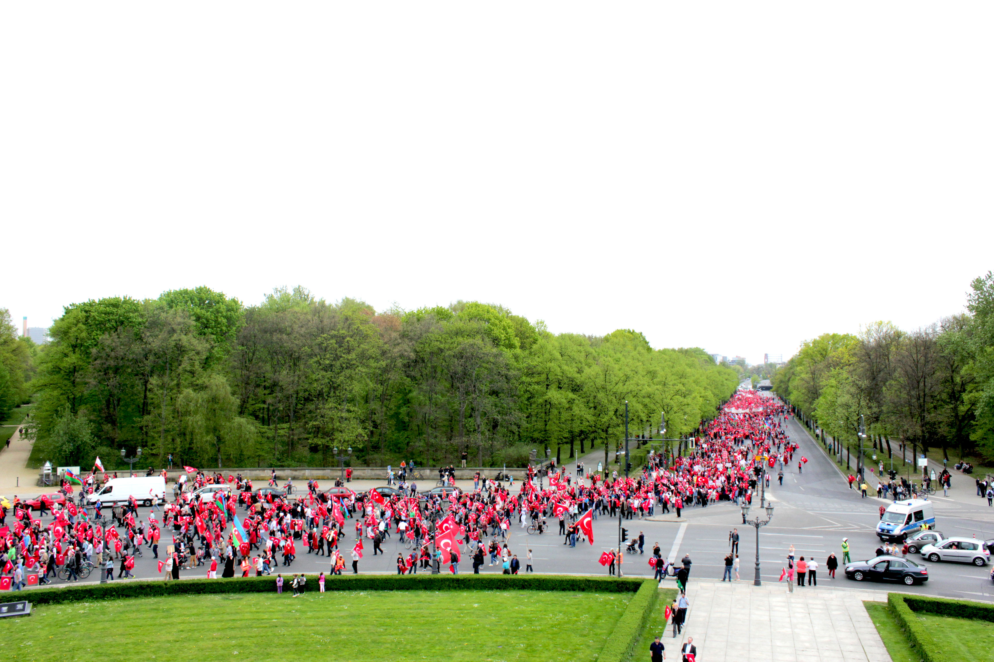 Demo der türkischen Gemeinden in Berlin